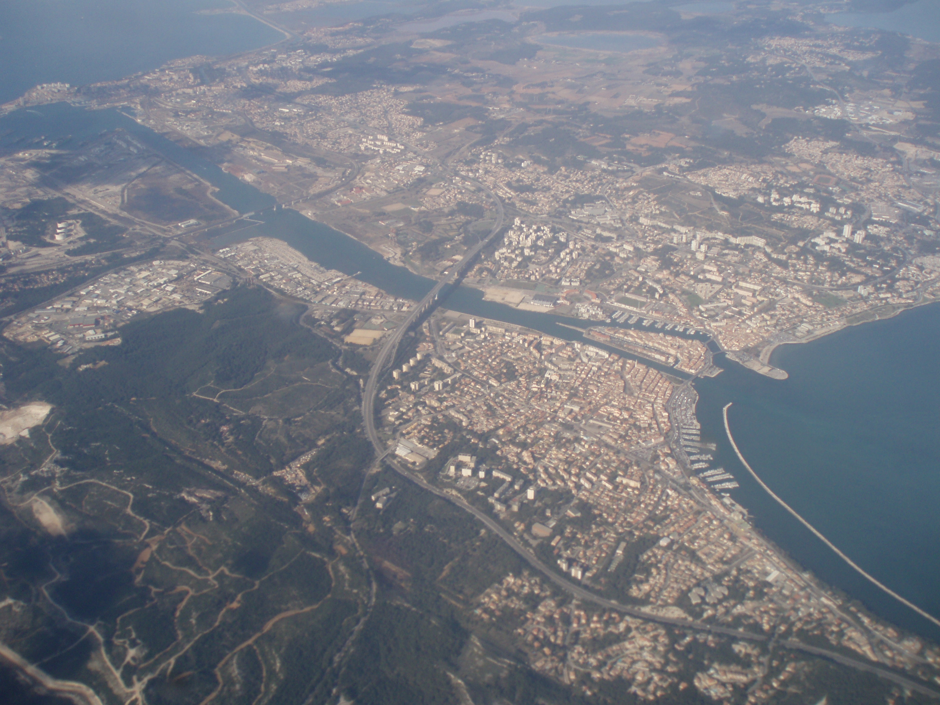 Canal de Caronte, conecting the Étang de Berre (right) with the Mediterranean (left)